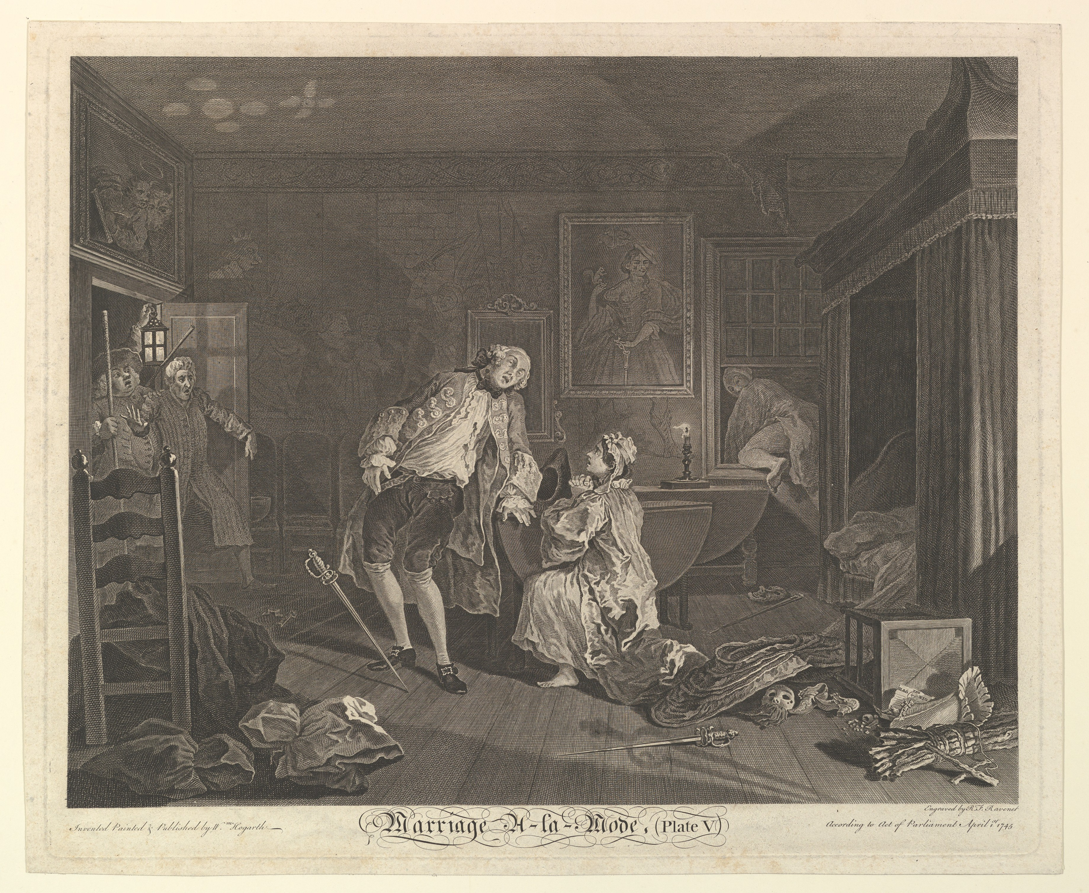 Print; Prints